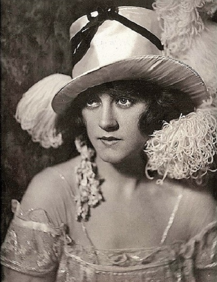 Lillian Lorraine as "The Little Blue Devil"